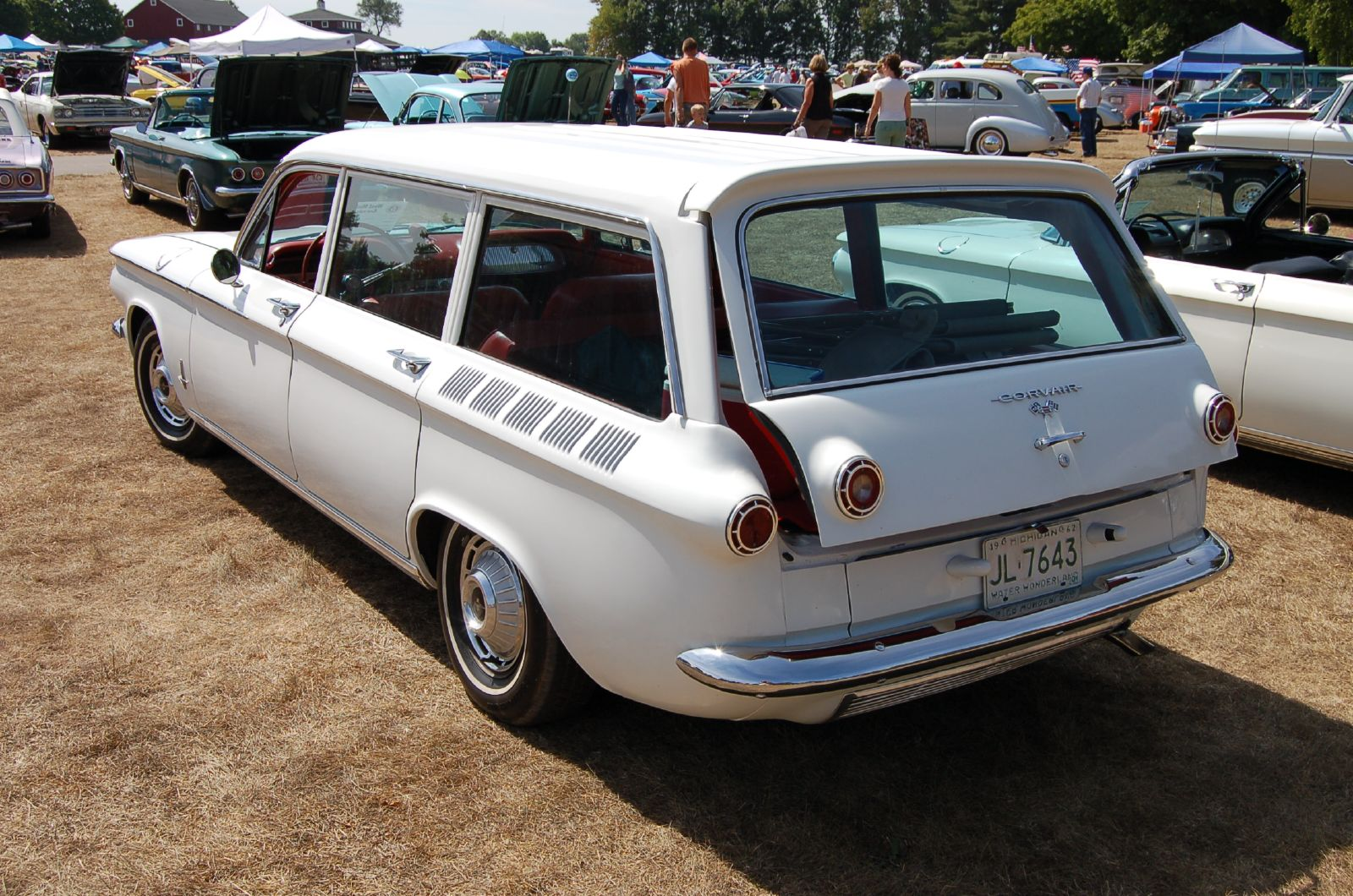 Taken during the 2007 "Red Barns Spectacular" car show at the Gilmore Car Museum, Hickory Corners, Michigan.